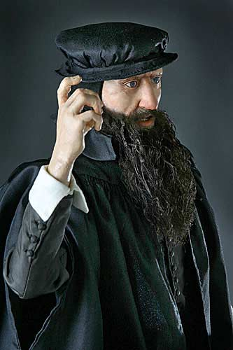 Historical figure of John Knox